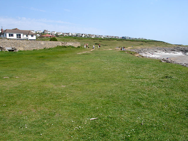 Ogmore-by-Sea. Looking along the coast path with the village of Ogmore-by-Sea in the background.